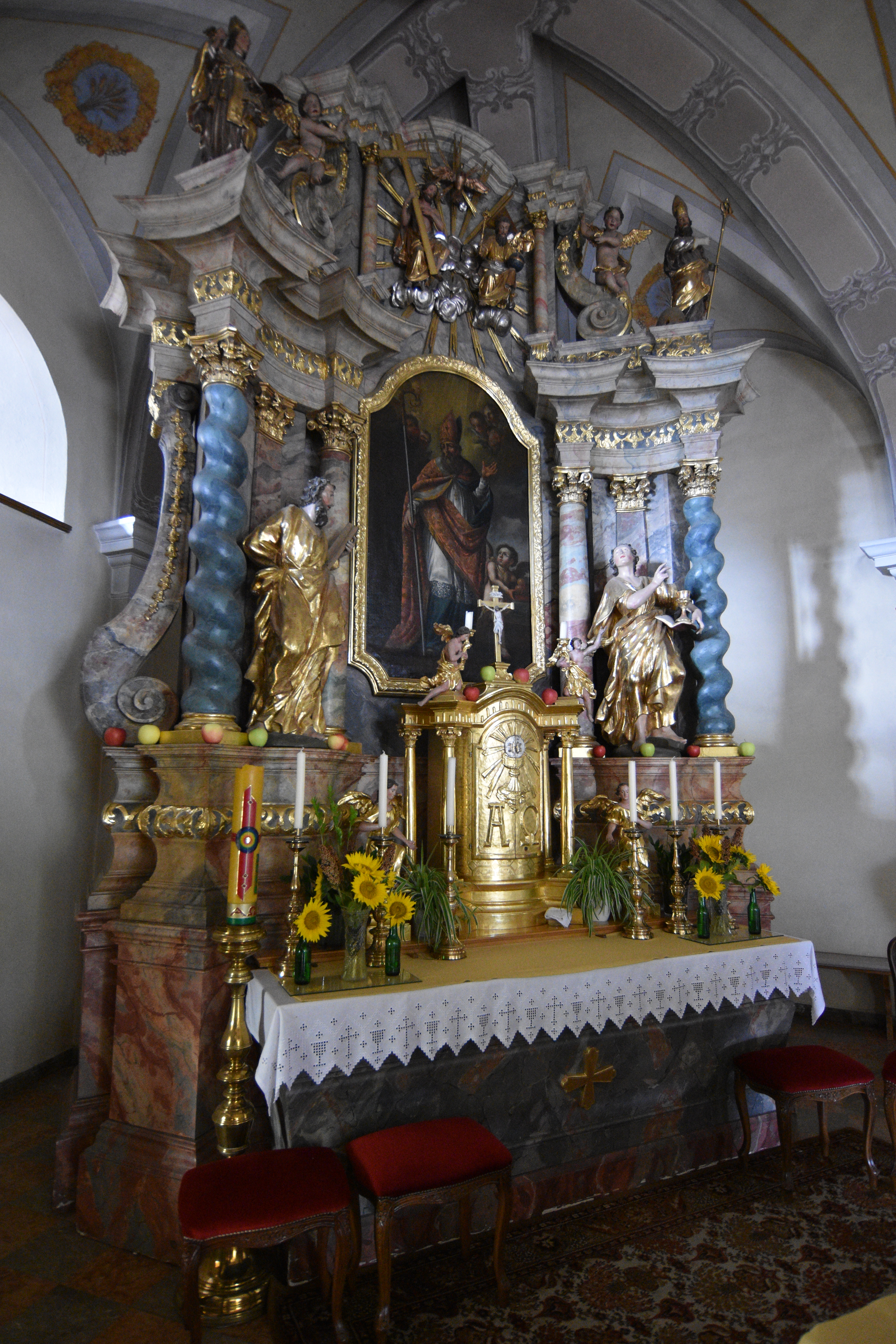 Saint Nicholas Church (Kapfenstein) - Interior